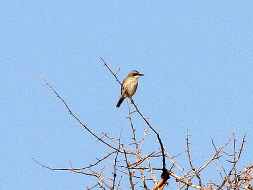 Namibornis herero, between Swakopmund and Hobatere, Namibia